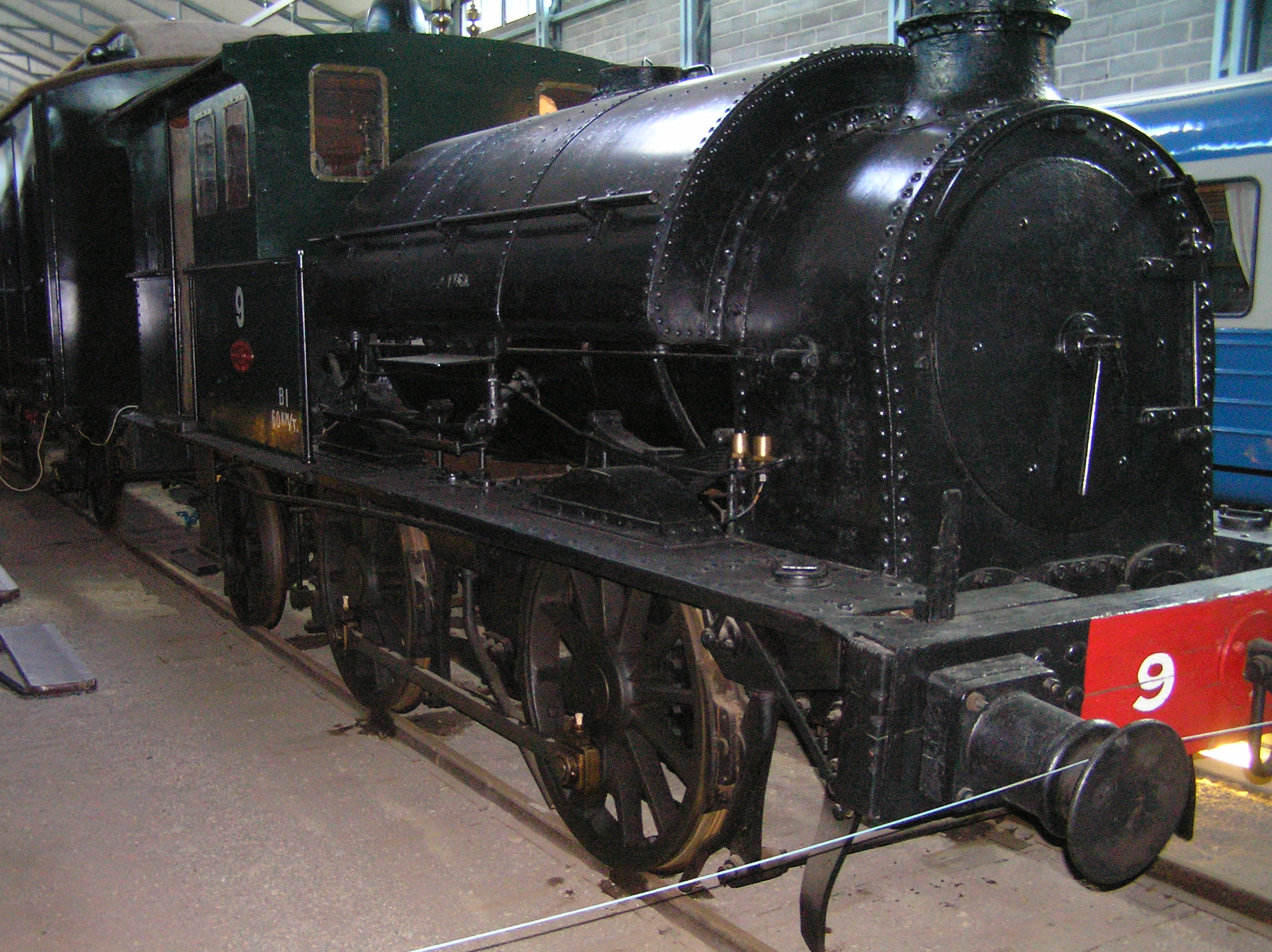 VR Class B1 steam locomotive (no. 9) at Finnish Railway Museum in Hyvinkää, Finland. The locomotive was manufactured by Beyer-Peacock & Co Ltd in Manchester in 1868. It is the oldest preserved locomotive in Finland.